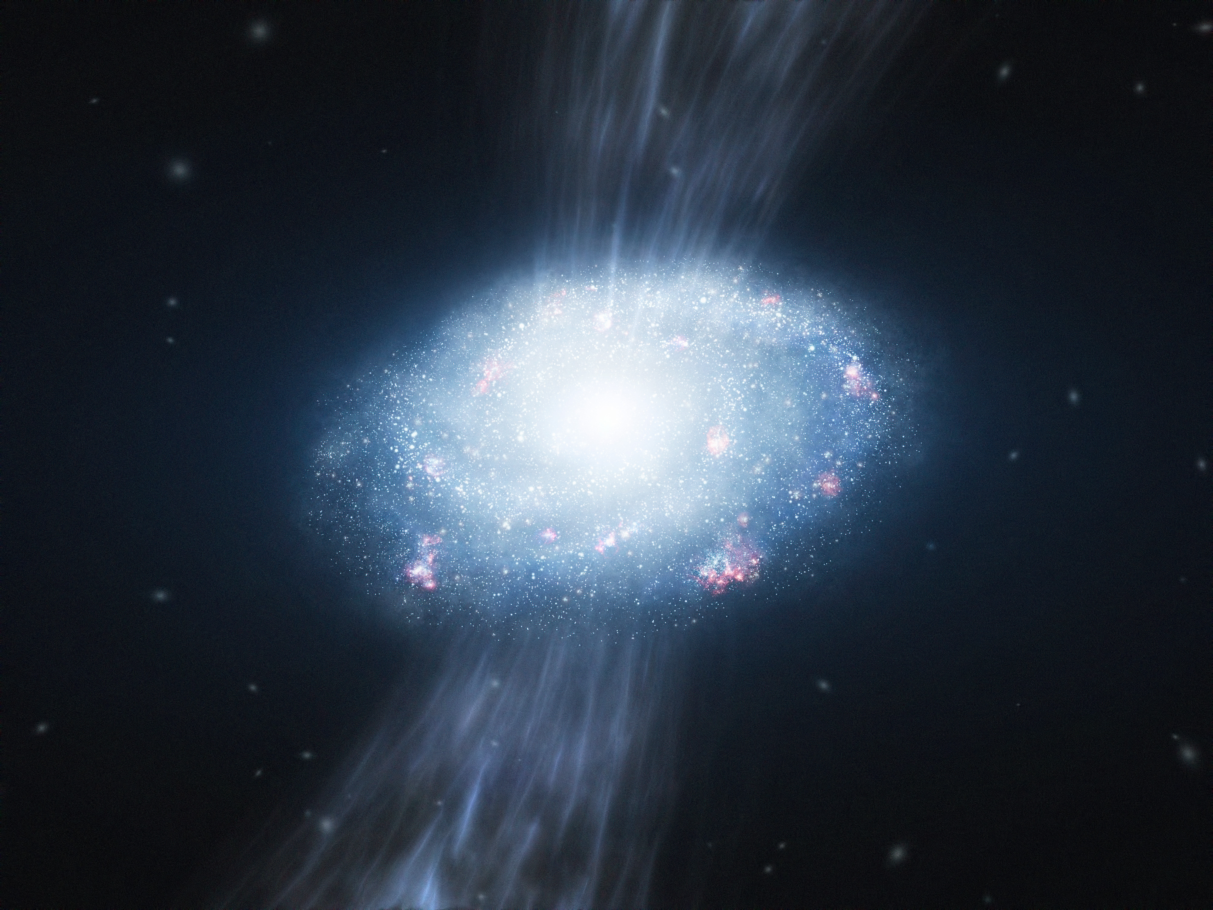 This artist’s impression shows a young galaxy, about two billion years after the Big Bang, accreting material from the surrounding hydrogen and helium gas and forming many young stars. New results from ESO’s Very Large Telescope have provided the first direct evidence that the accretion of pristine gas alone, without the need for violent major mergers, can fuel vigorous star formation and the growth of massive galaxies in the young Universe.